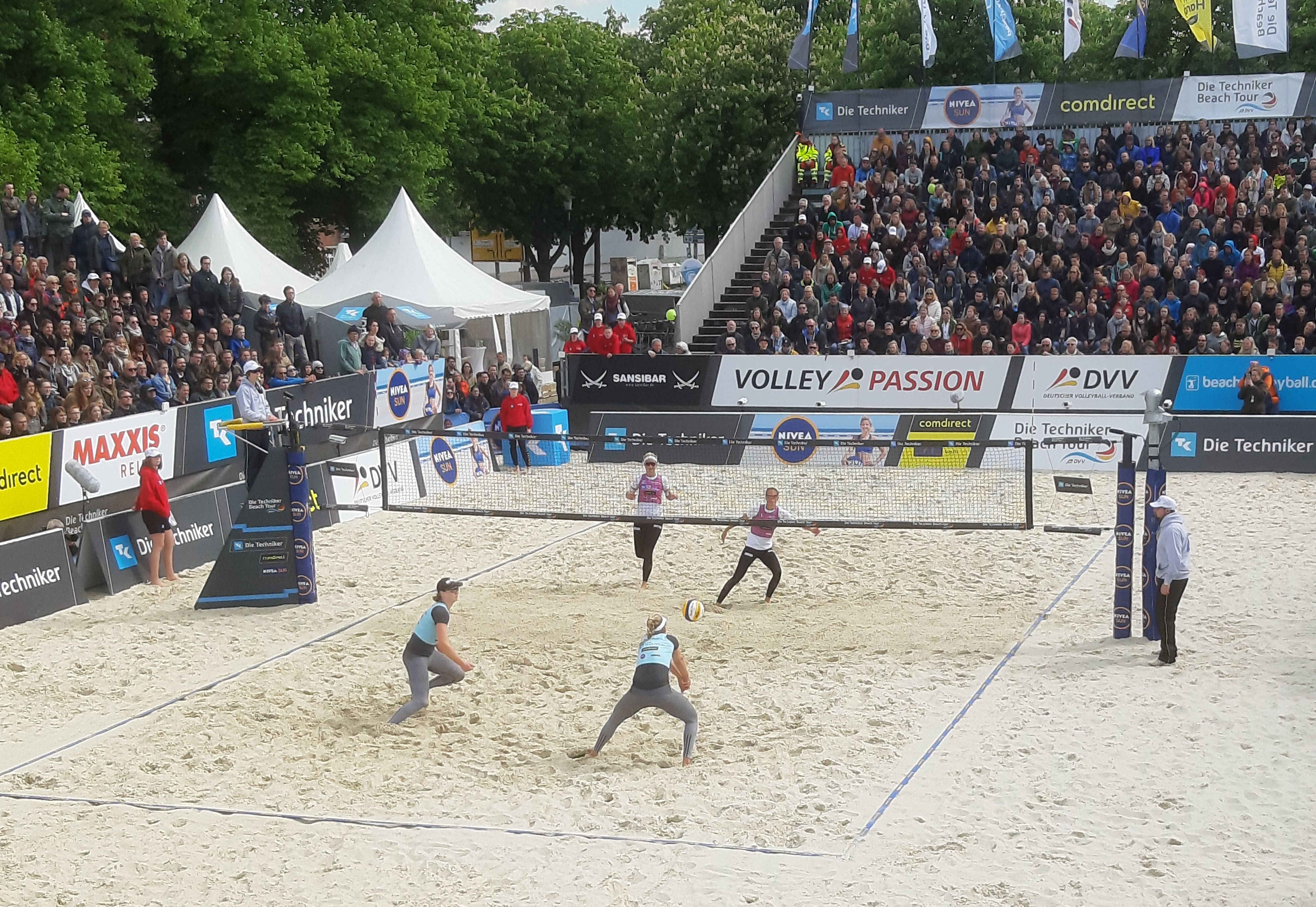 Techniker Beach Tour 2019 in Münster, women's final Karla Borger / Julia Sude vs. Anna Hoja / Stefanie Hüttermann